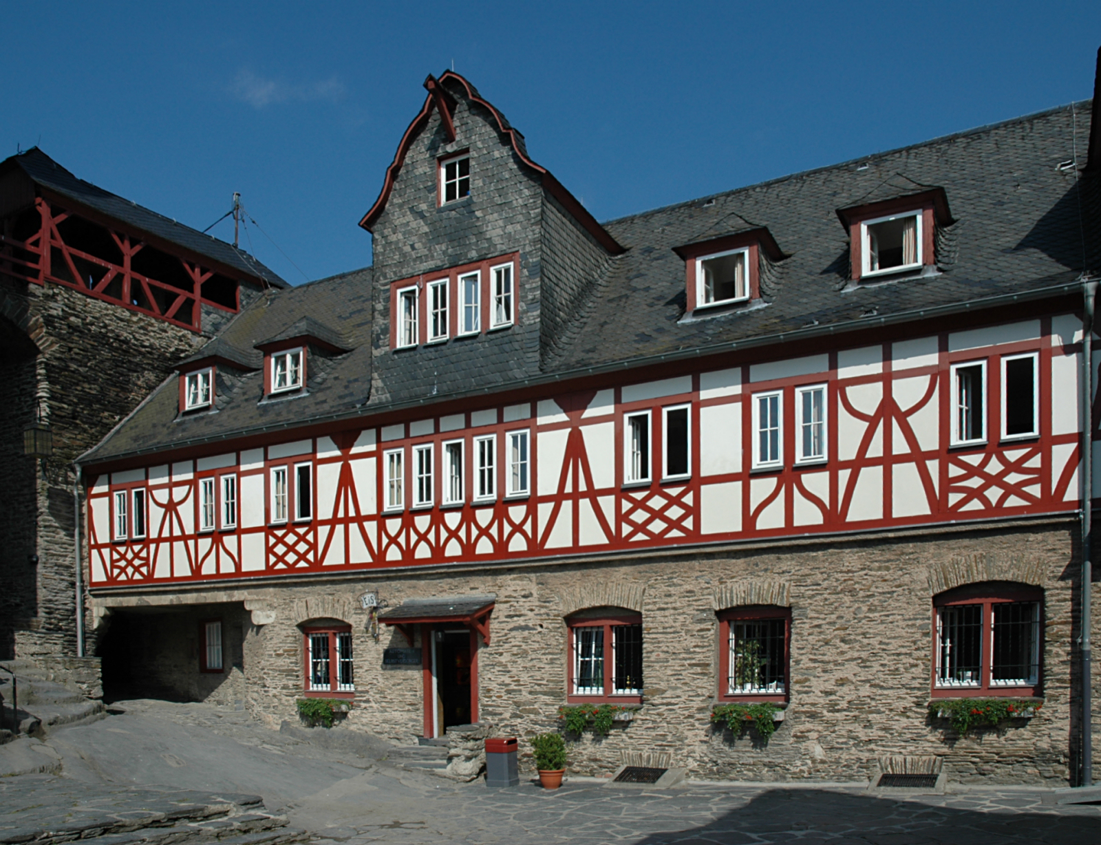 Stahleck Castle, so called long house